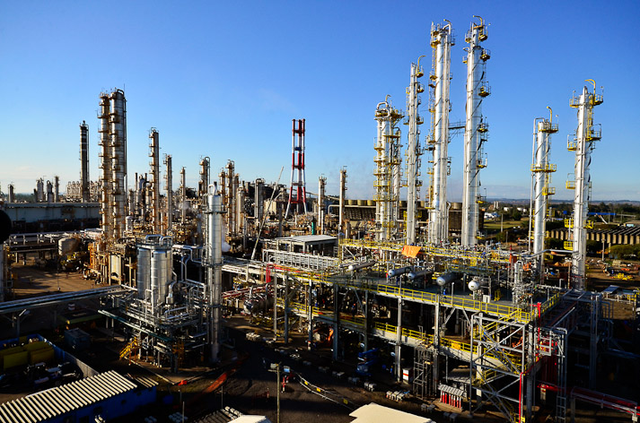 Planta Braskem